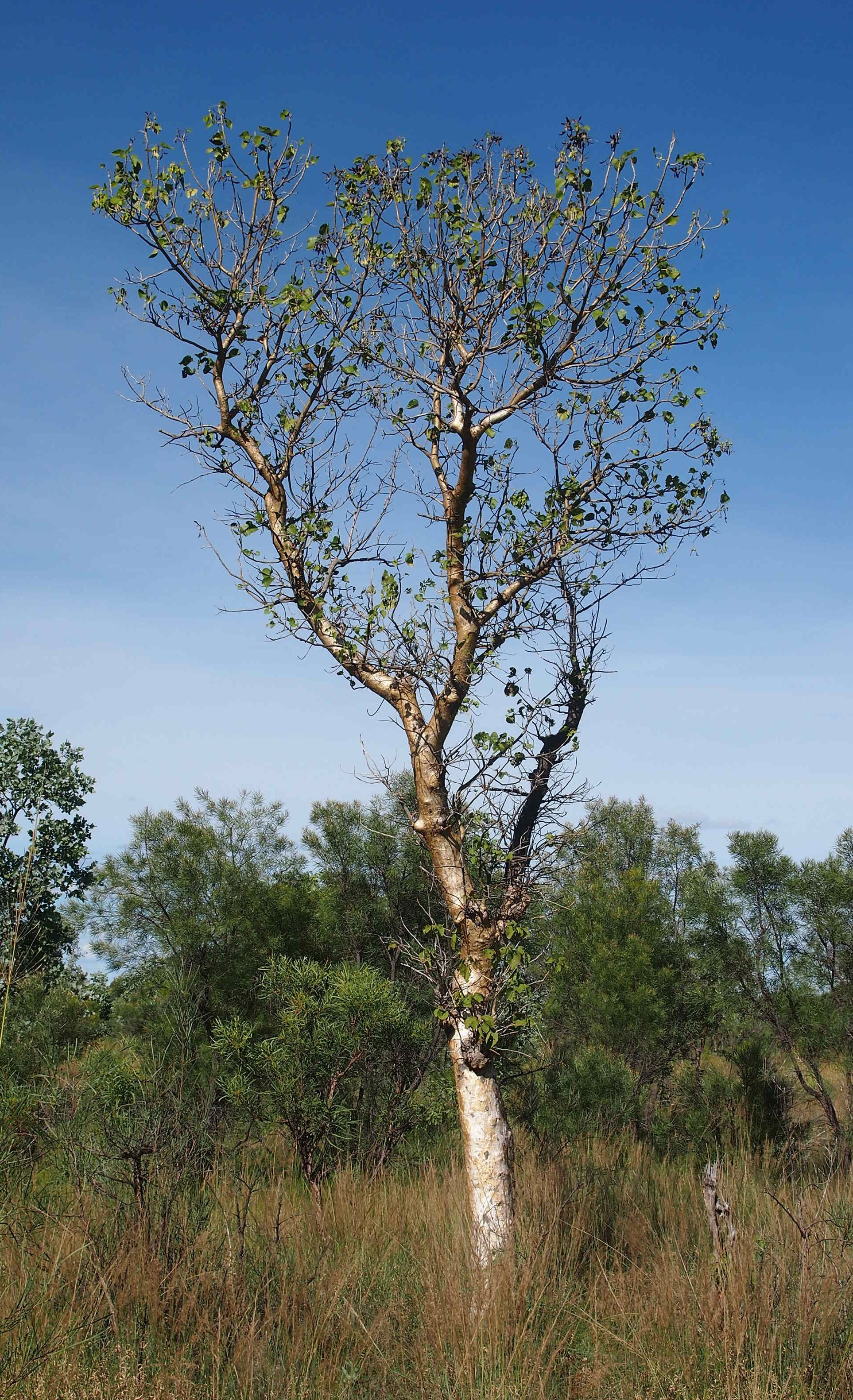 Gyrocarpus americanus habit